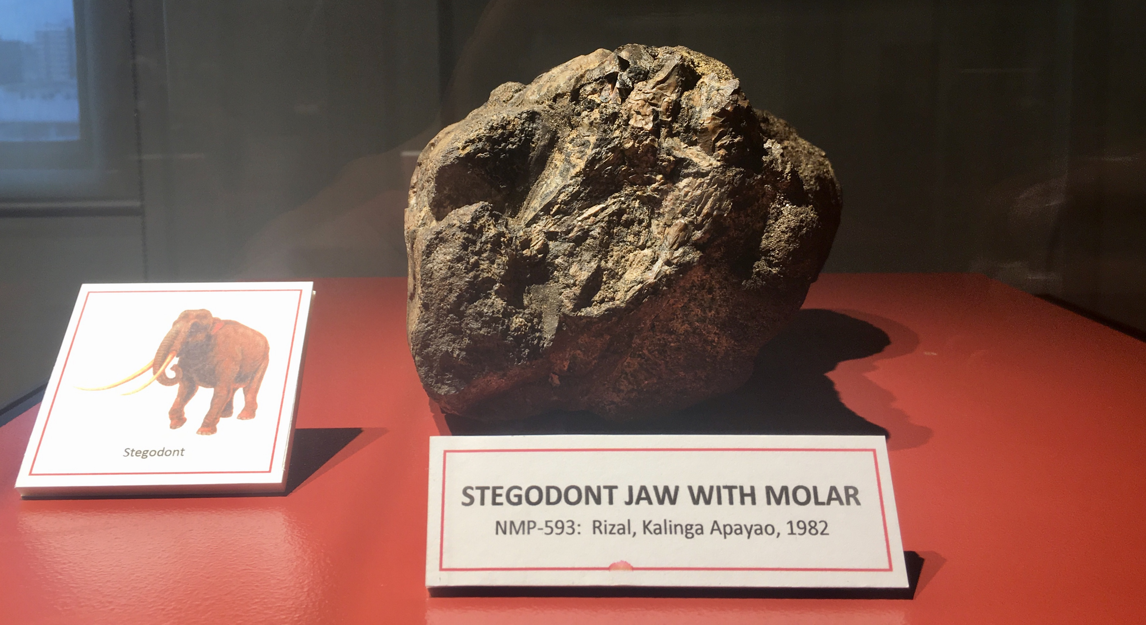 Fossilized stegodon’s jaw with molar displayed at Philippine National Museum